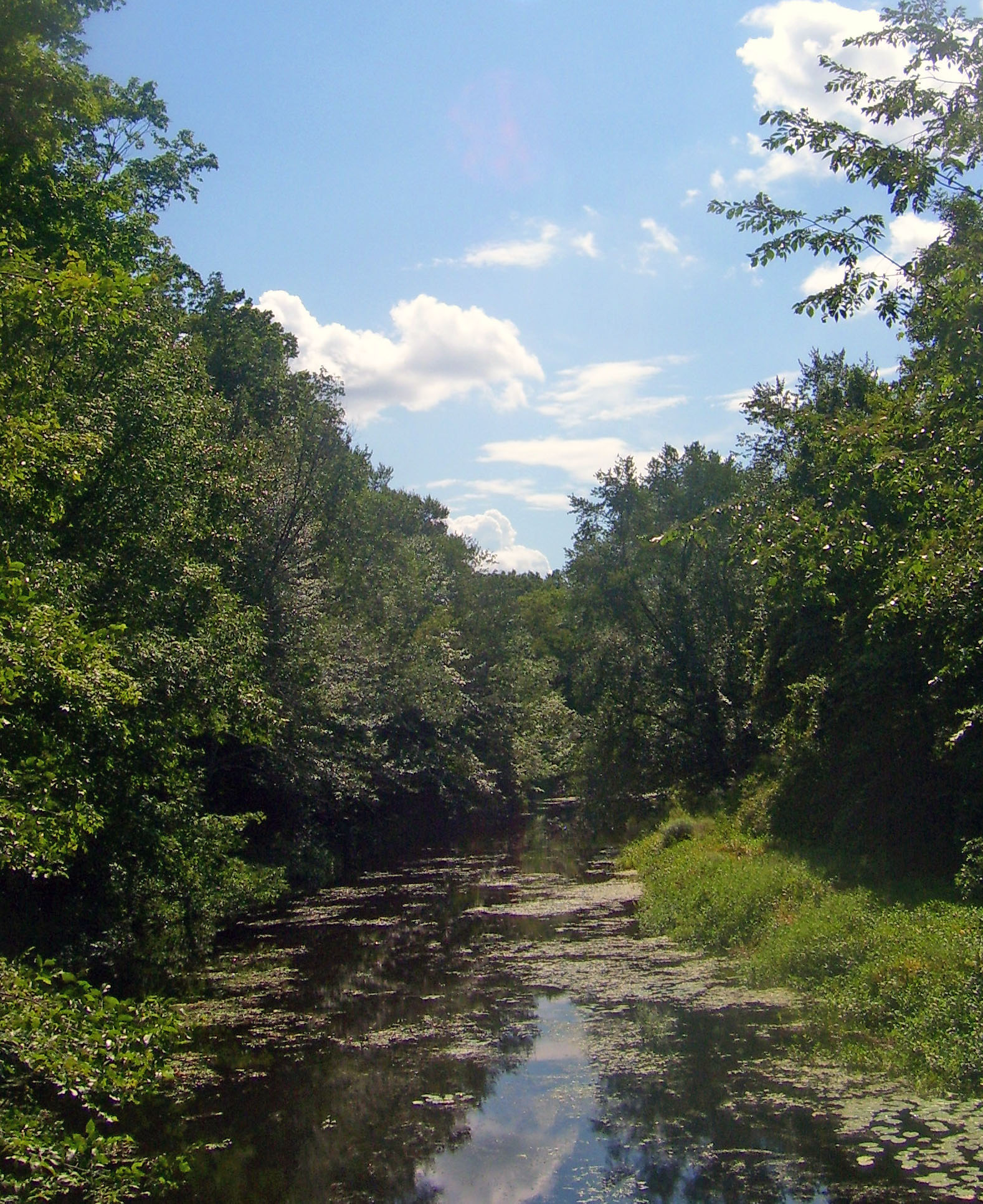 Otter Kill flowing through Hamptonburgh, NY, USA